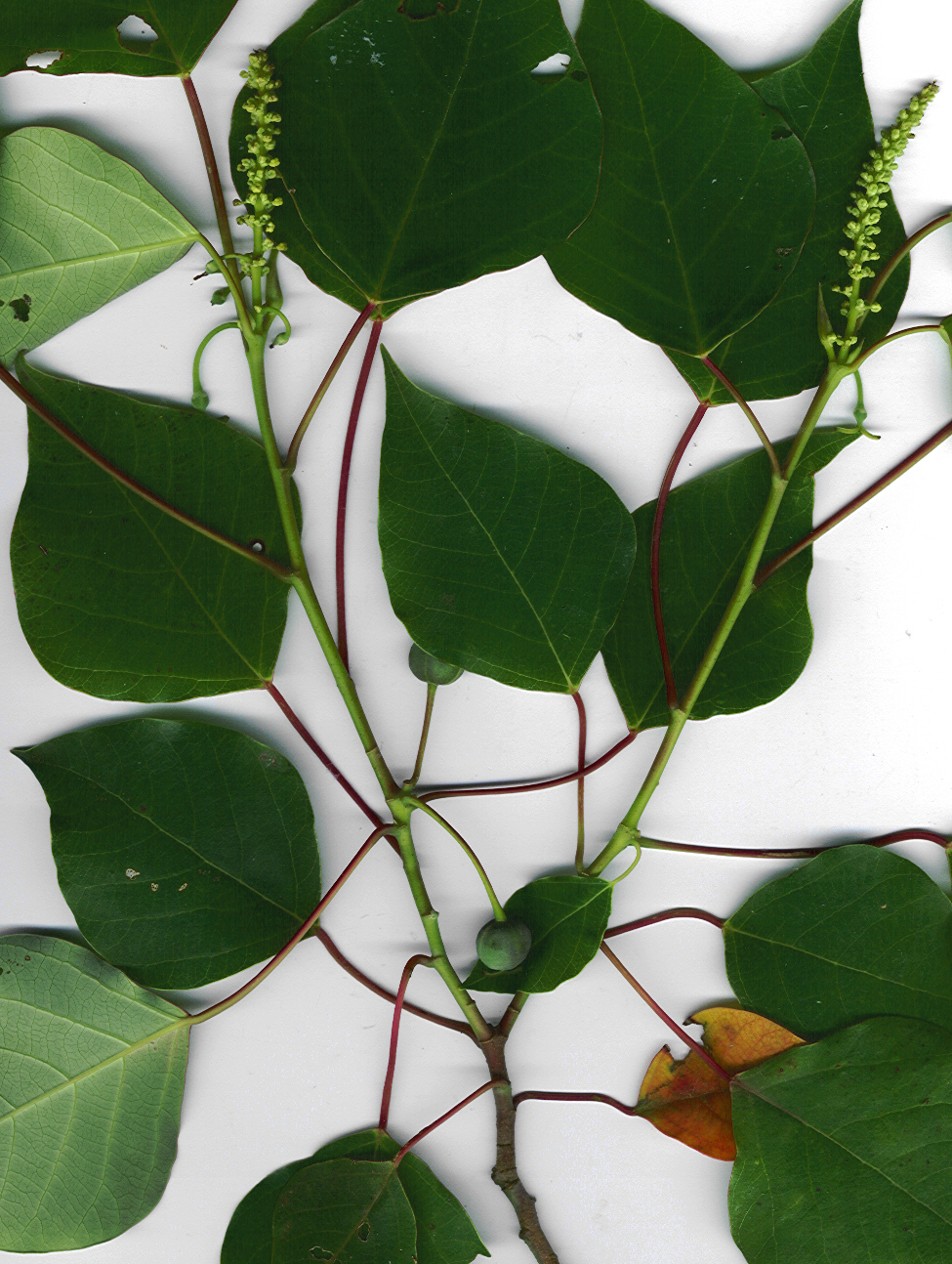 Homalanthus populifolius (plant). Location: Maui, Pololei Kokomo